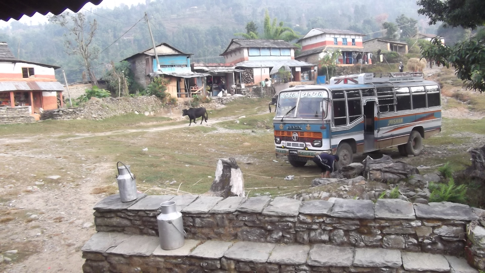 I had taken this photo during my visit in Kaskikot nearly Nov. 2010